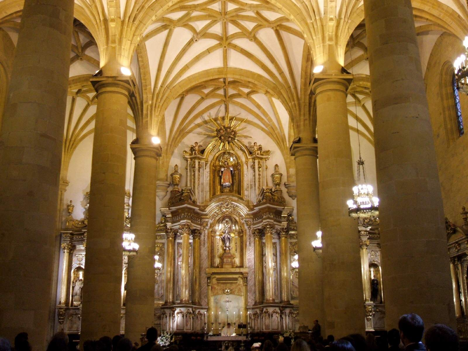 Iglesia de San Vicente de Abando, Bilbao